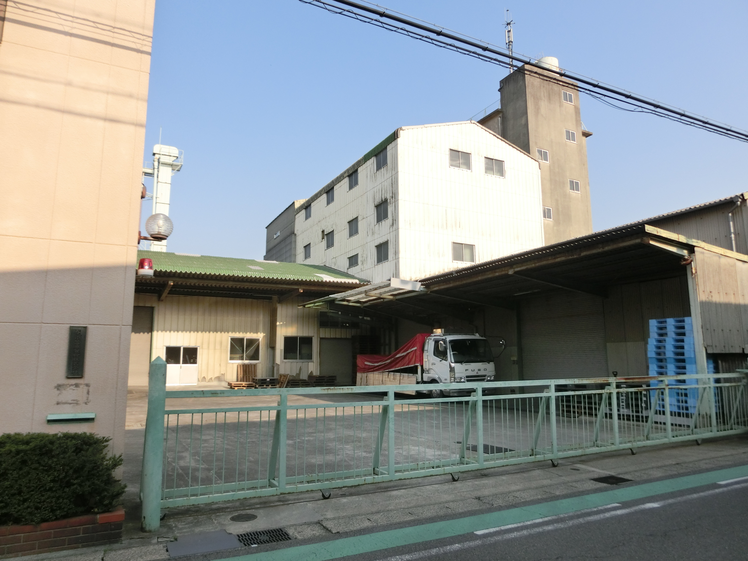 Ogasawara Seifun Head Office